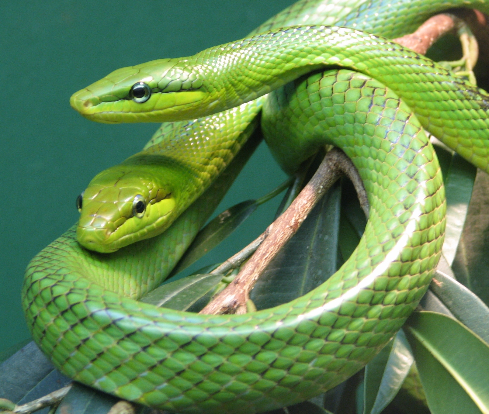 Red Tailed Green Ratsnake (Elaphe oxycephala)